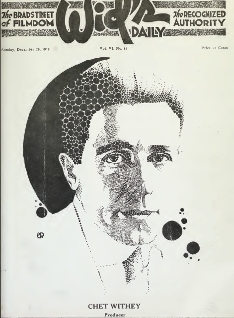 Cover of Film Daily with Chet Withey.